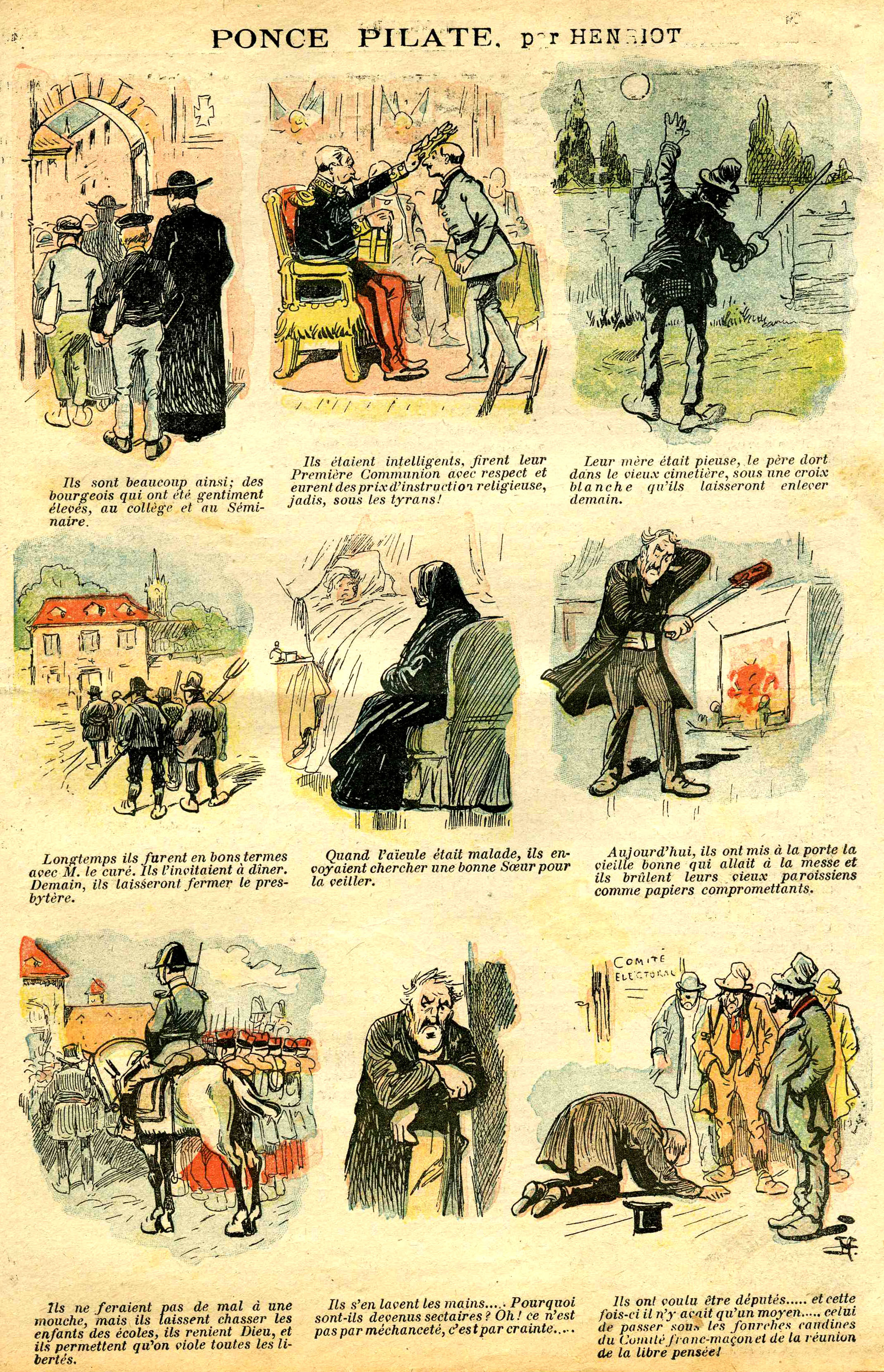 Comic strip by French caricaturist Henriot